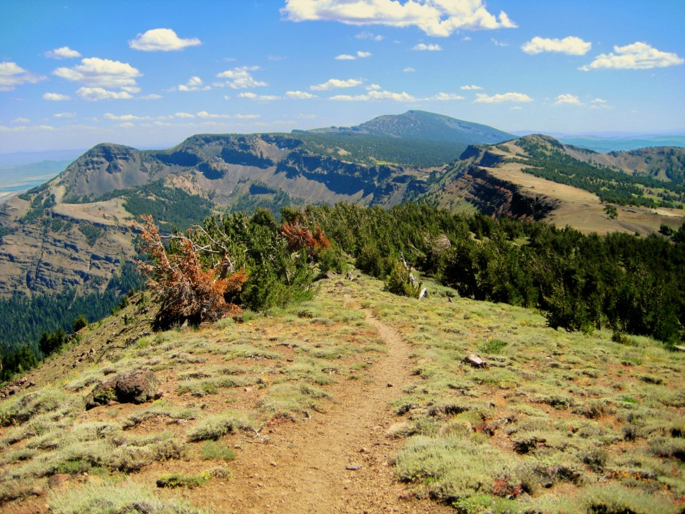 Summit Trail in South Warner Wilderness, Modoc National Forest, northeastern California.